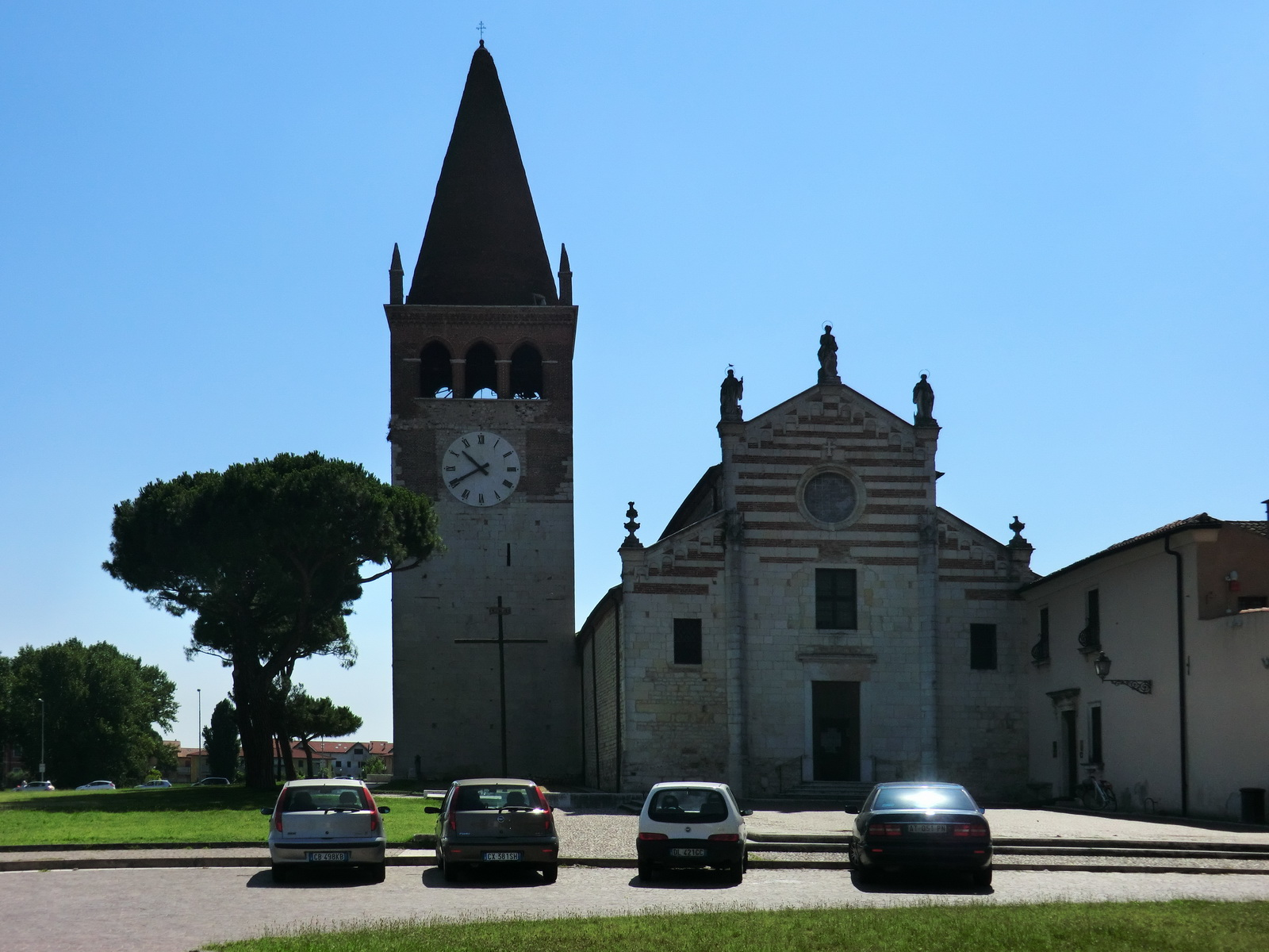 Abbey of St Peter Native nameAbbazia di San PietroLocationSan Bonifacio, Veneto, ItalyCoordinates45° 24′ 10.51″ N, 11° 15′ 50.88″ E Web page Authority control : Q18558976 VIAF: 236131188 GND: 4721233-0 institution QS:P195,Q18558976